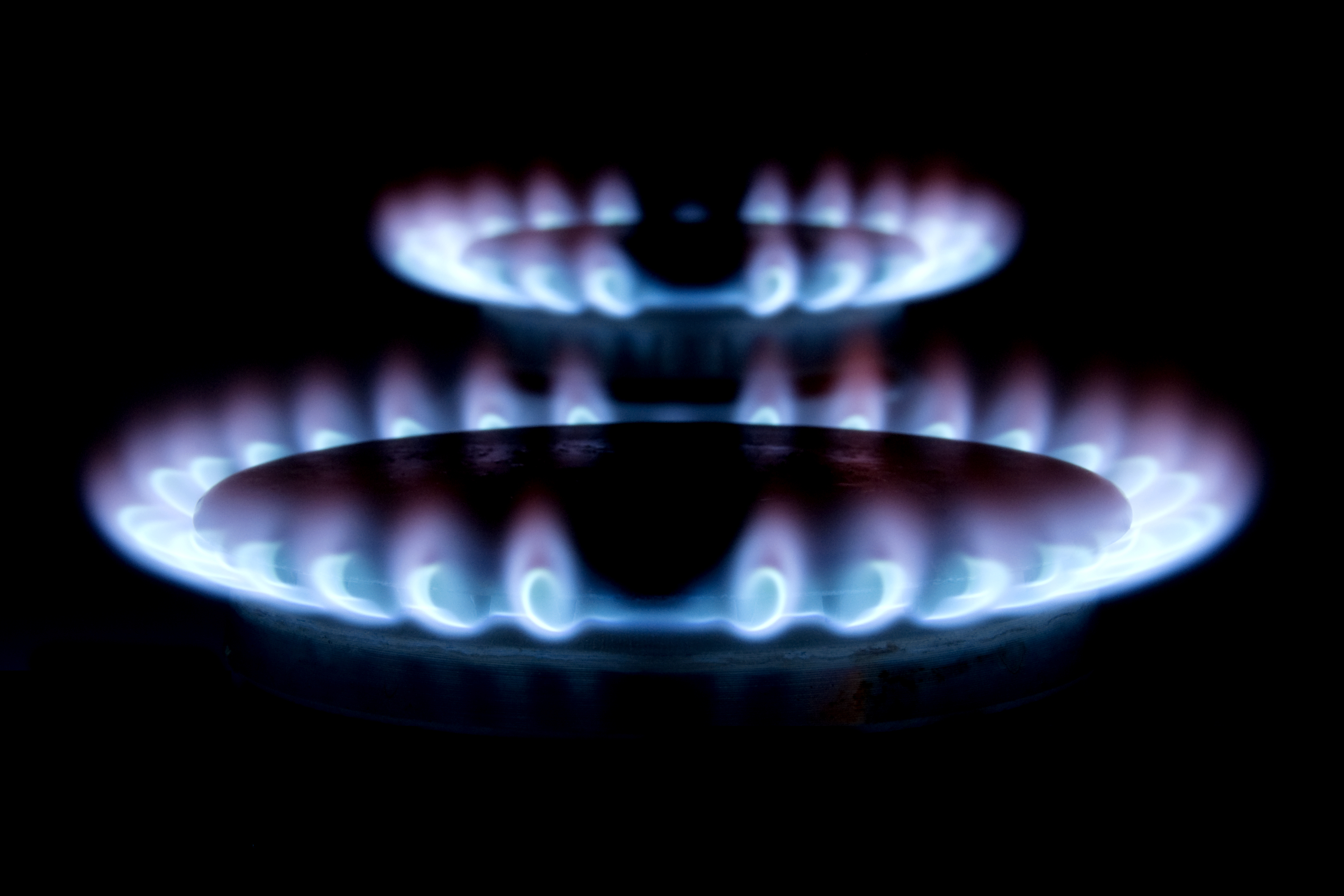 Light my fire